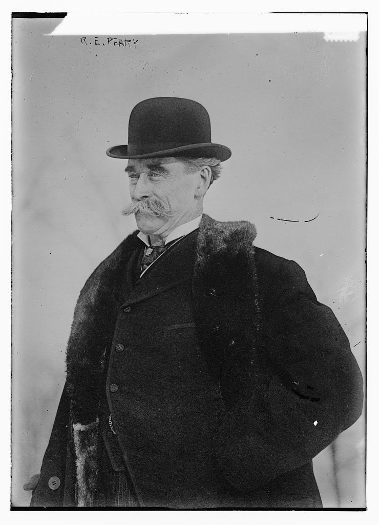 Robert Edwin Peary, Sr. (May 6, 1856 – February 20, 1920) in 1915-1916